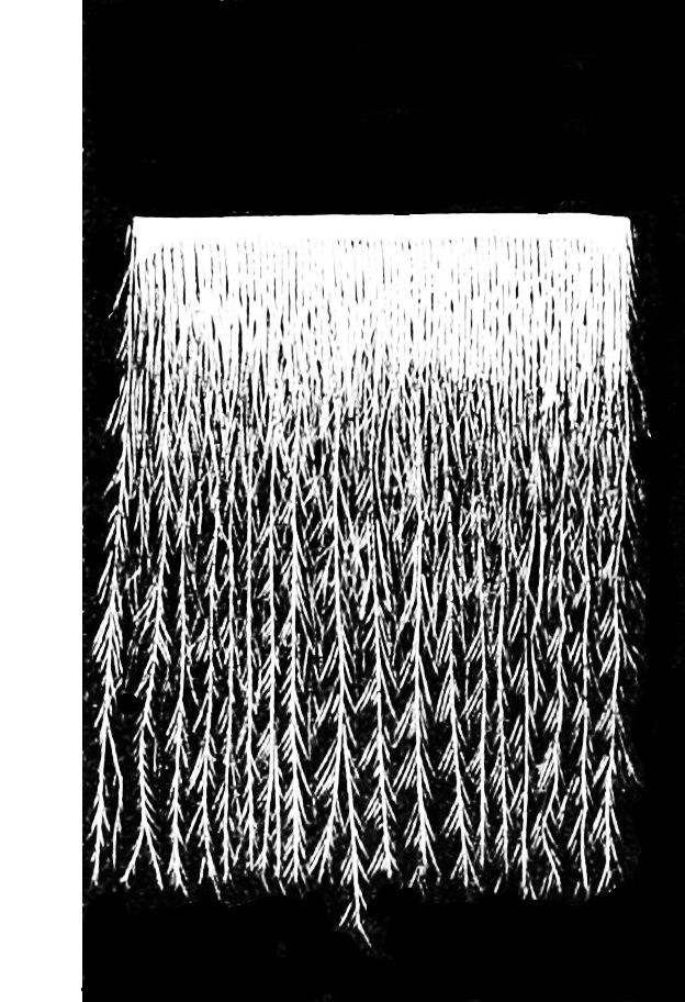 Crystallization by bismuth